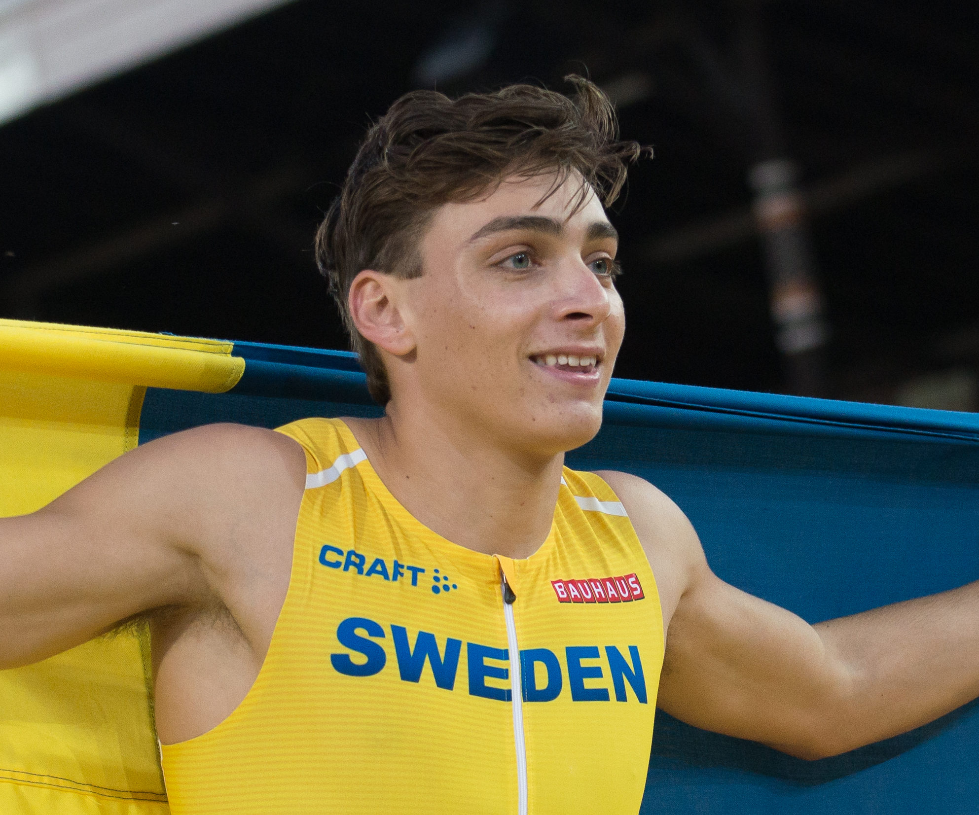 Armand Duplantis during the Finland-Sweden athletics international 2019 at the Stockholm Stadium in August 2019.